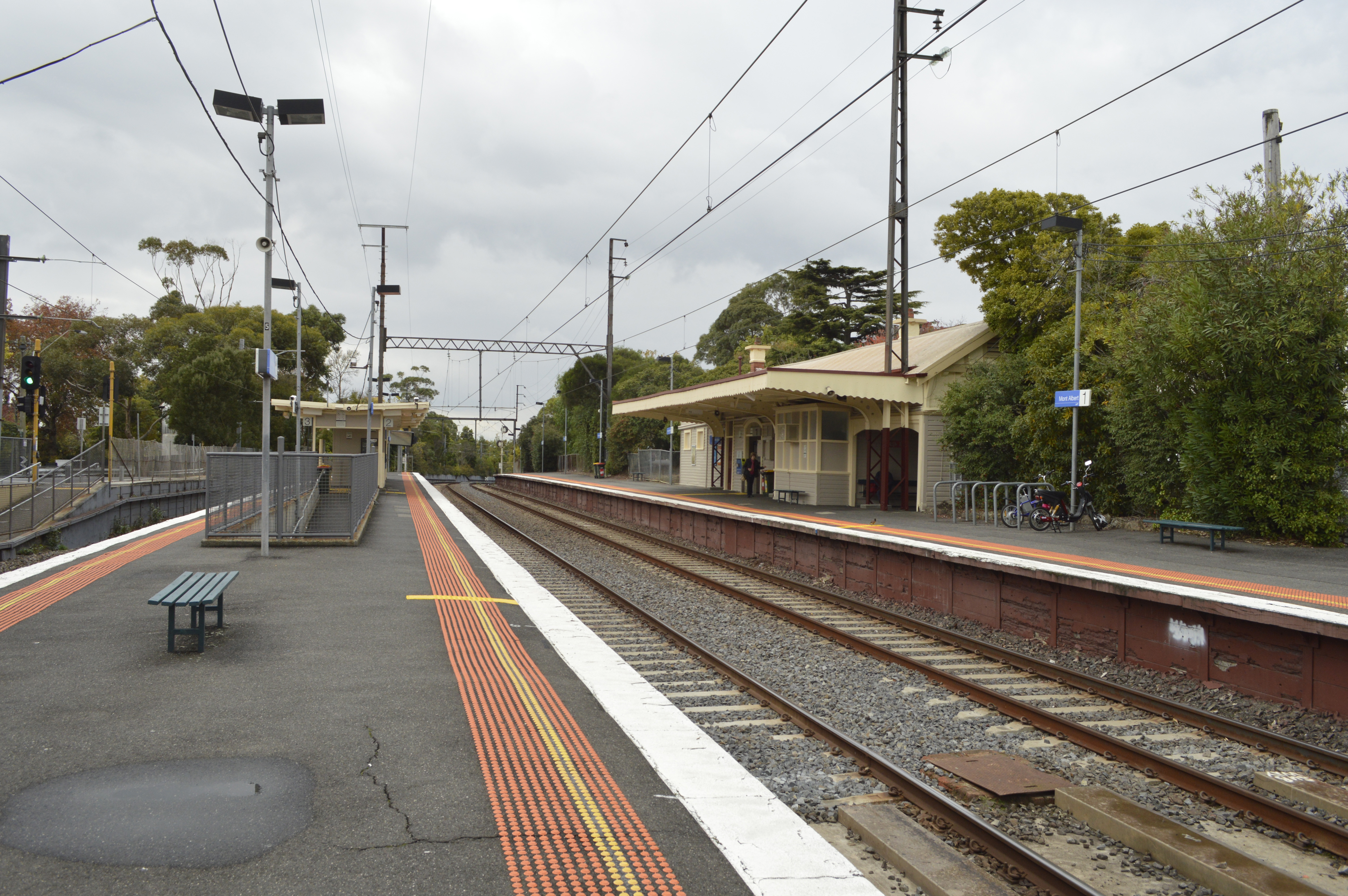 View from platform 2 looking east.